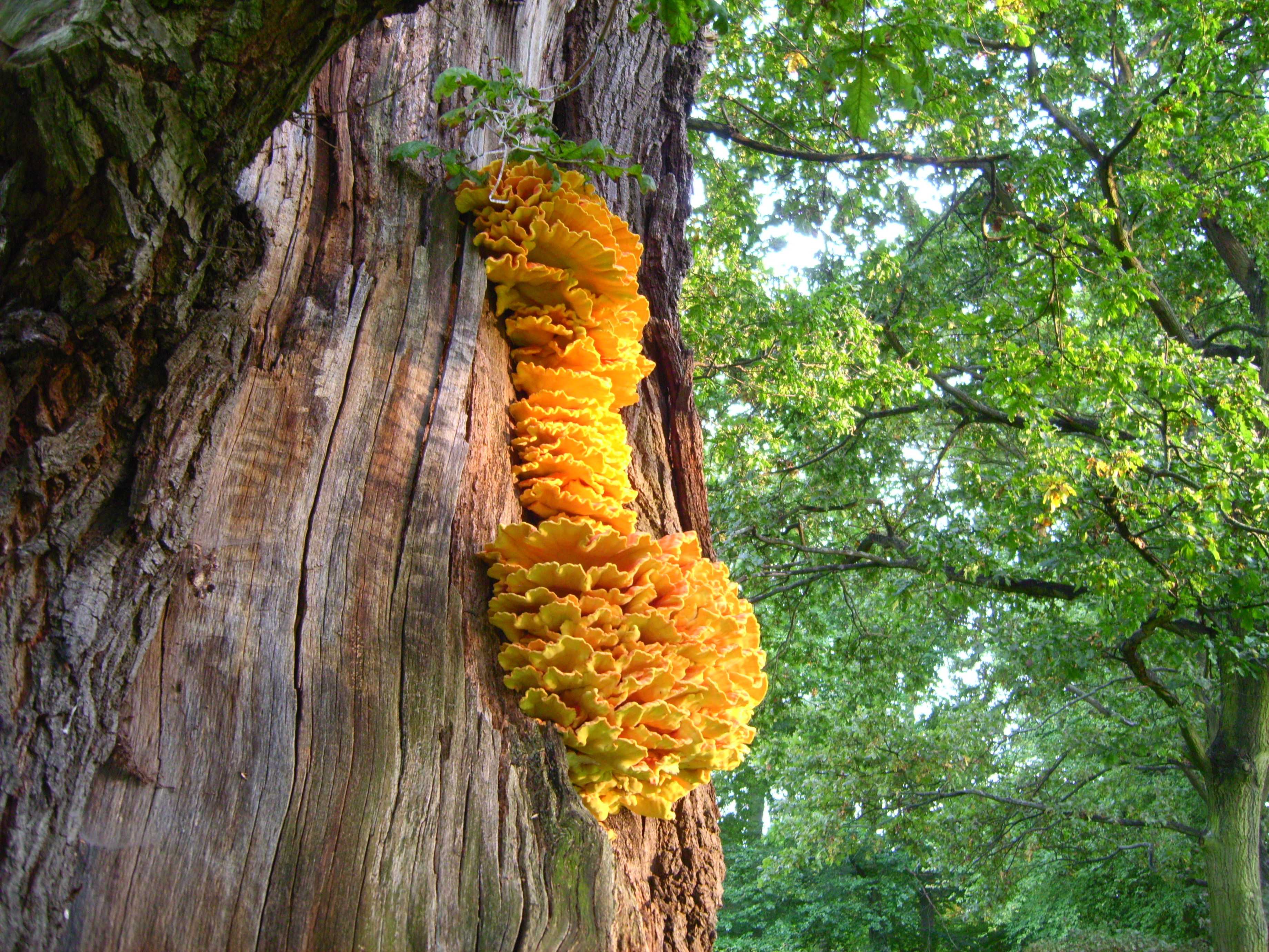 Fungus from tree - guess it is a Laetiporus sulphureus